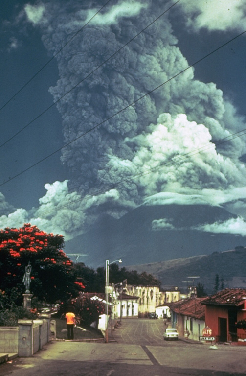 October 1974 eruption of Volcán de Fuego — seen from Antigua Guatemala, Guatemala. Pyroclastic flows can be seen descending the east (left-hand) flank.